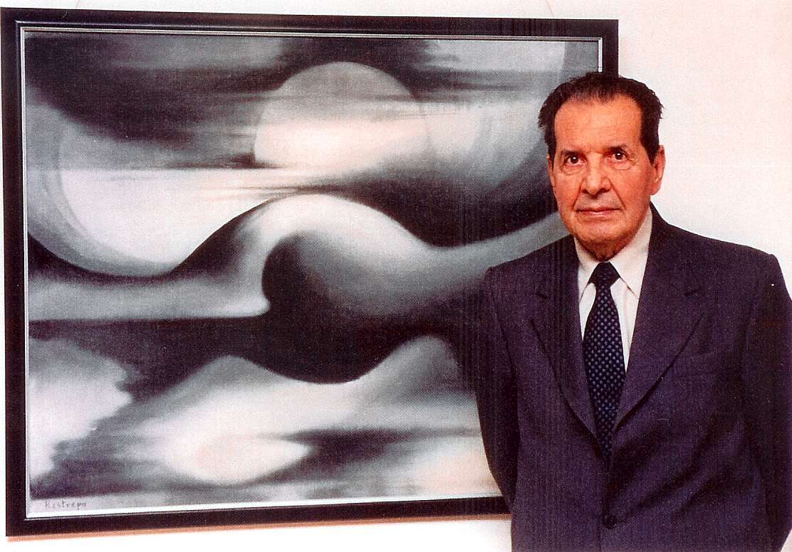 Pedro Restrepo. Taken by Artists' son, at the opening of his exhibit in Jakarta, Indonesia, 2003.